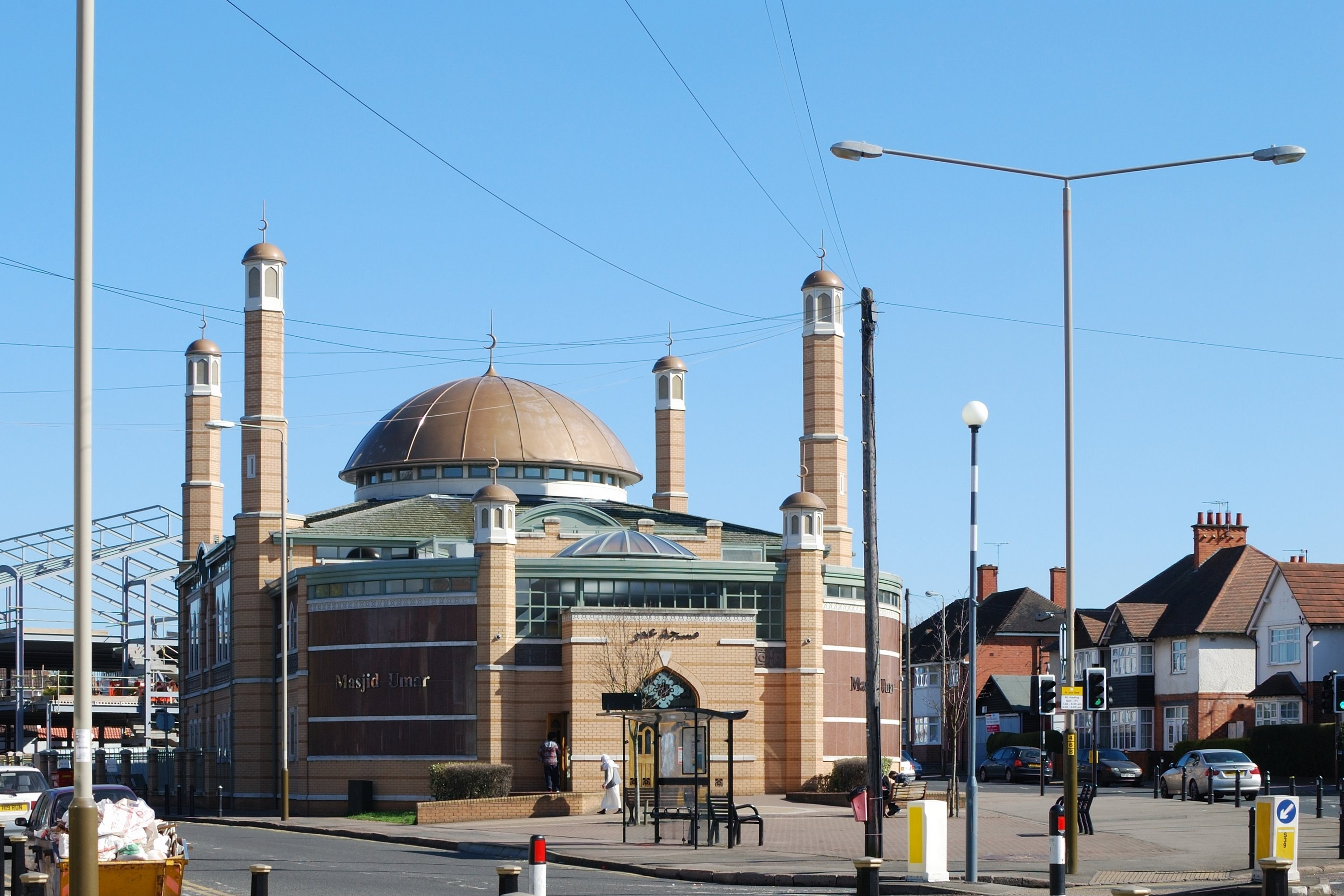 Masjid Umar is a mosque in Evington, Leicester, England